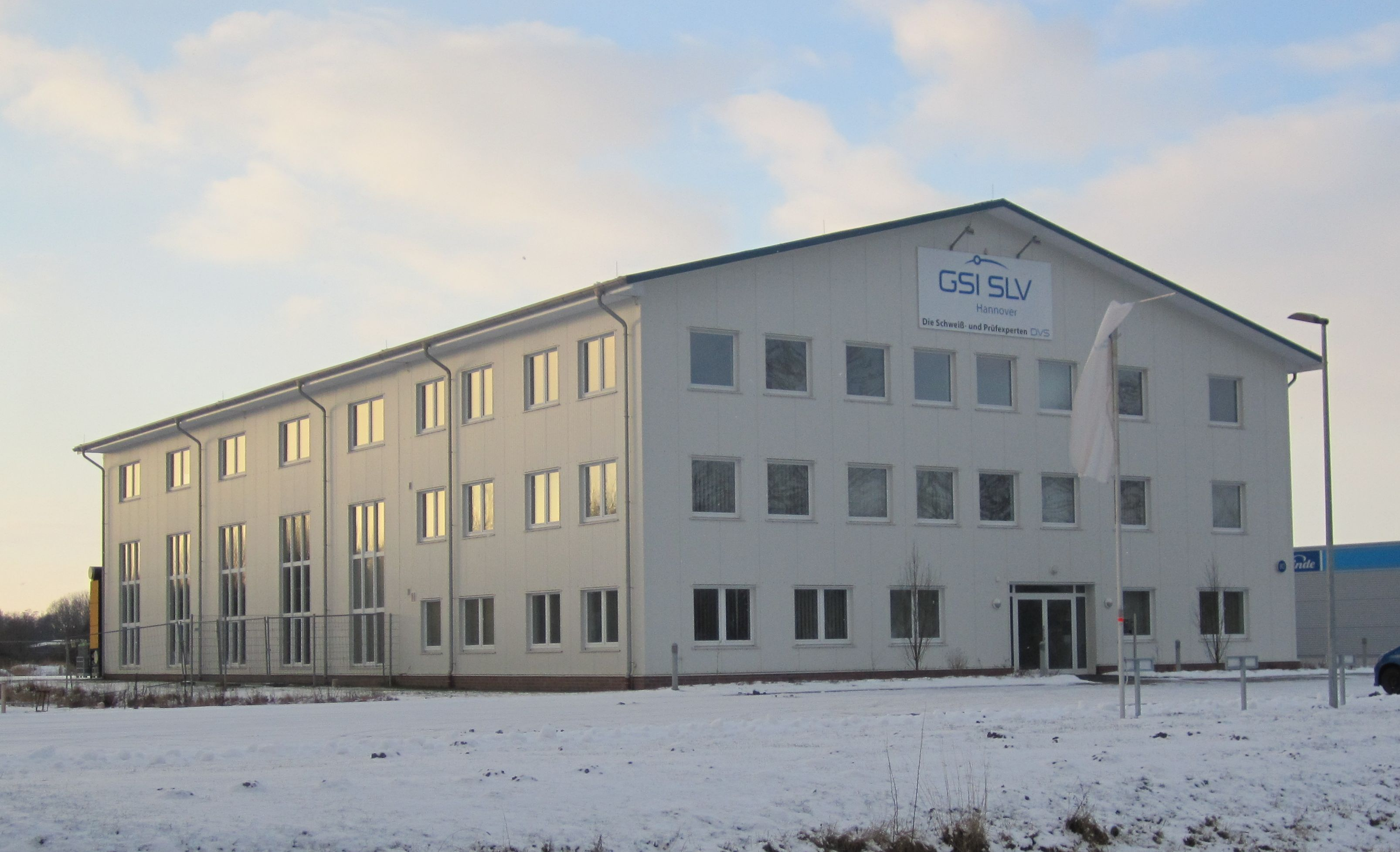 GSI SLV Welding center, Wilhelmshaven, Germany.